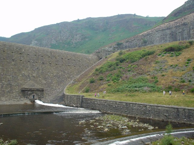 Dam on Caban-Coch Reservoir, near Rhayader. Behind this huge dam is the Caban-Coch Reservoir. The Elan Valley Visitors centre details the workings and history of this series of dams and reservoirs.